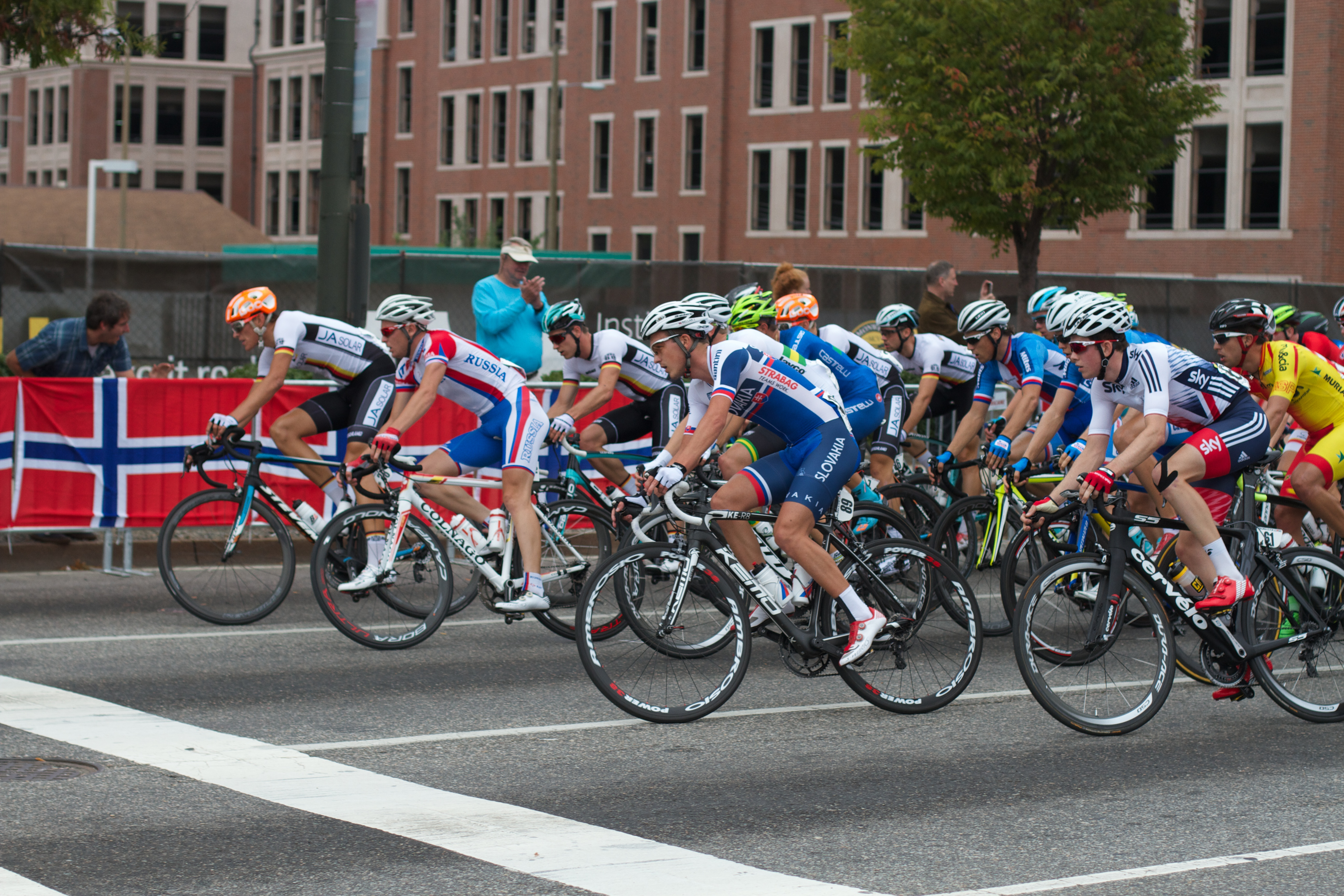 UCI Road Championship Races, Richmond VA 2015 UCI Road World Championships, in Richmond, United States, men's under-23 road race